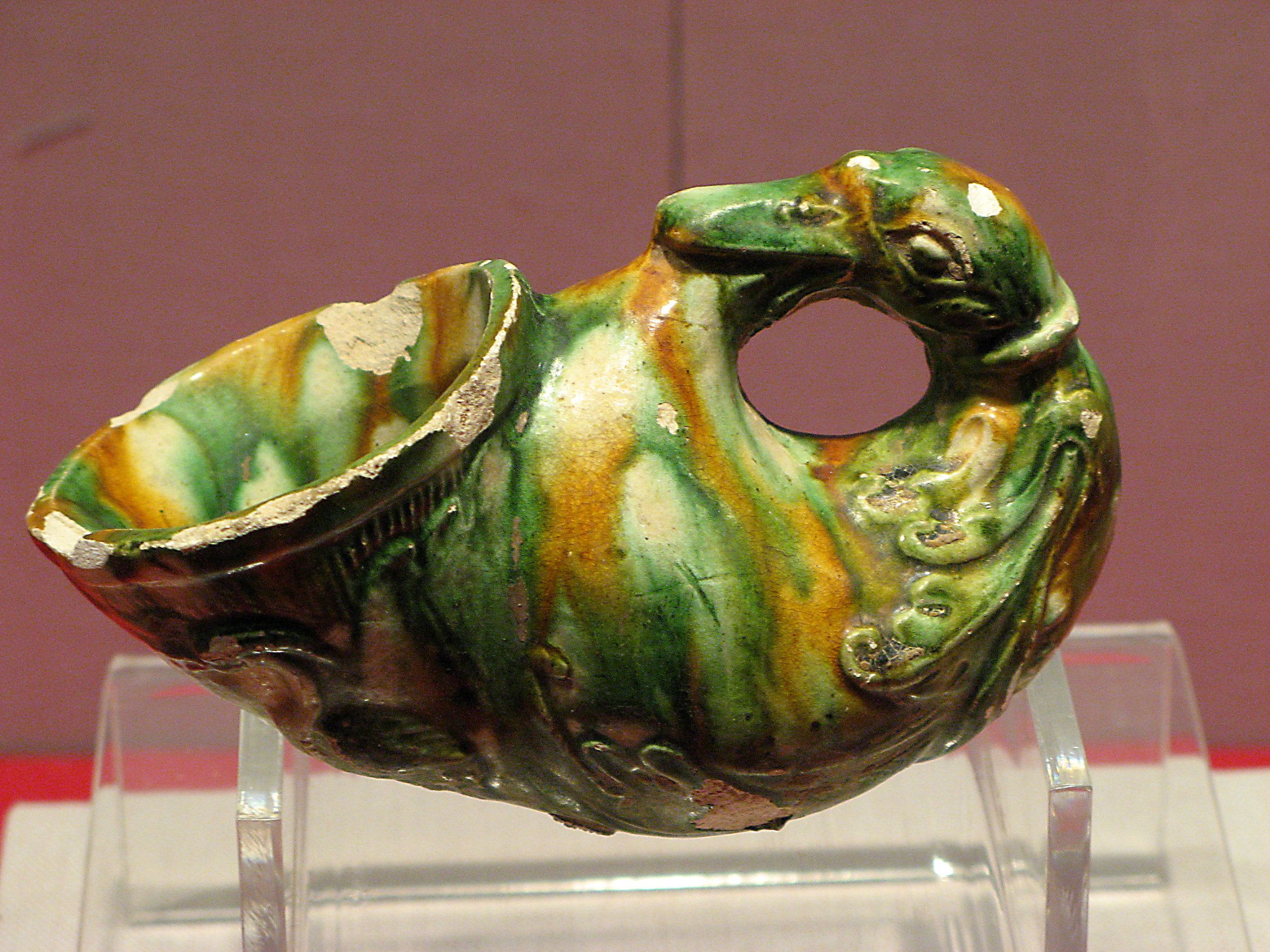 Duck-Handled Cup. Tang Dynasty, 618 - 906 AD. Gansu Provincial Museum. The handle of this sancai-glazed cup is shaped like a duck's curving neck and head, whose feathers extend onto the body of the cup. The duck is grooming the fluff of its stomach with its beak. The cup's design may have been inspired by contact with rhytons, those animal-headed Western drinking-cups encountered along the Silk Road.